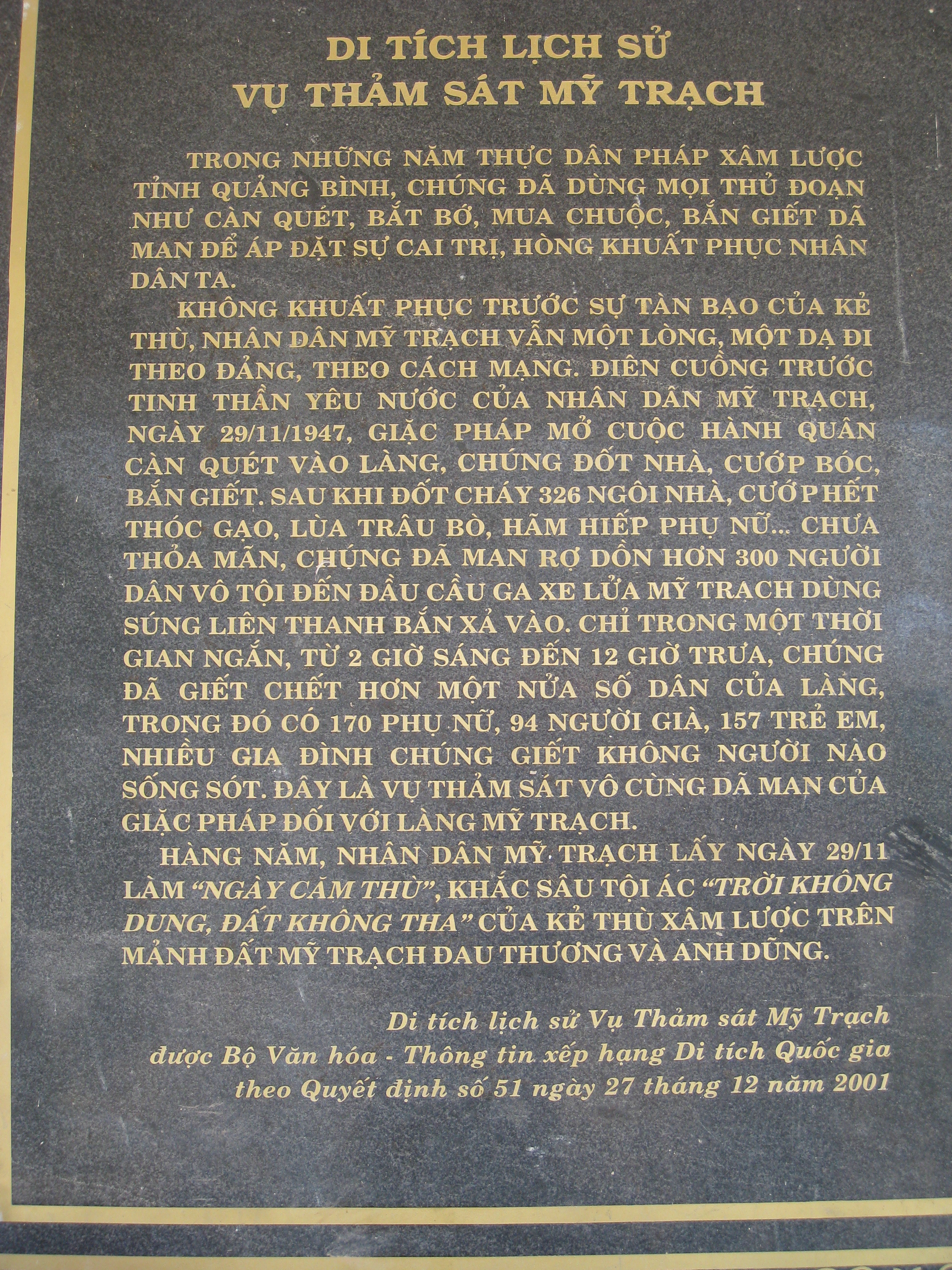 Memorial stele to the victims of My Trach Massacre, Vietnam